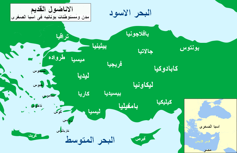 Political map of Asia Minor in 500 BC